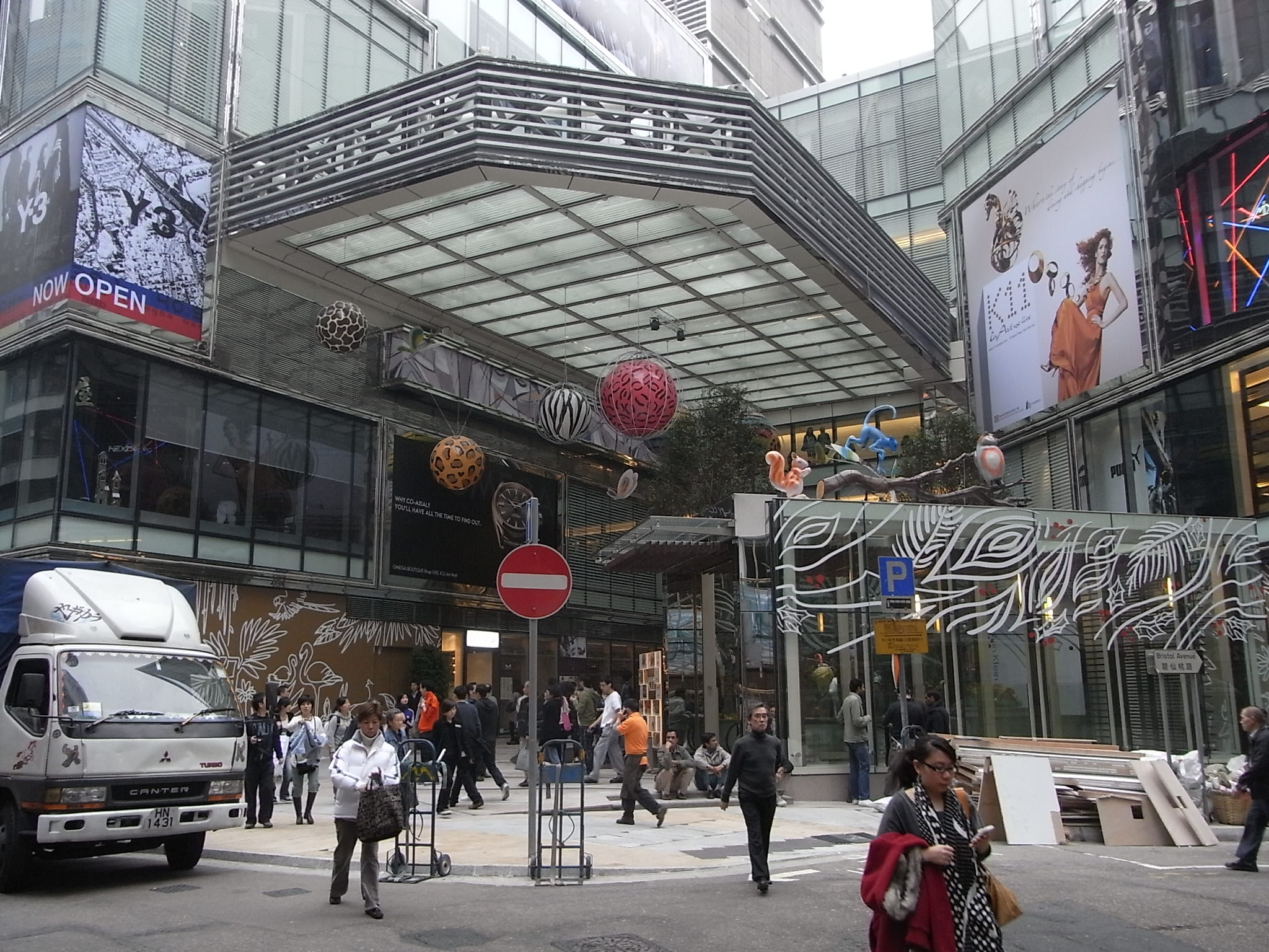 尖沙咀 加拿分道 名鑄 K11 廣場 碧仙桃路